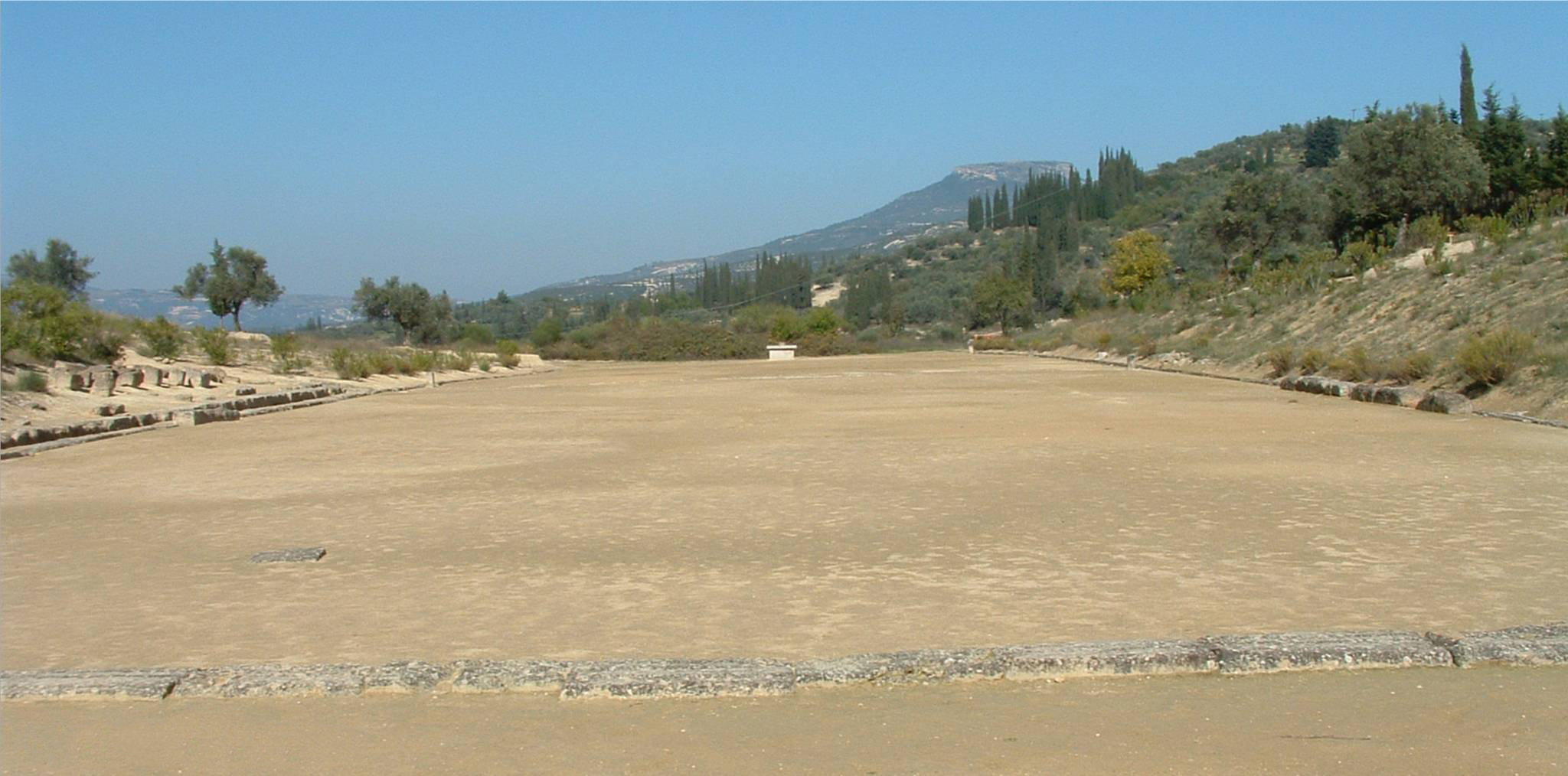 Stadion of the Nemean Games